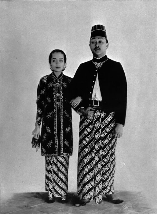 Portrait of Mangku Negoro VII and his wife Ratu Timur